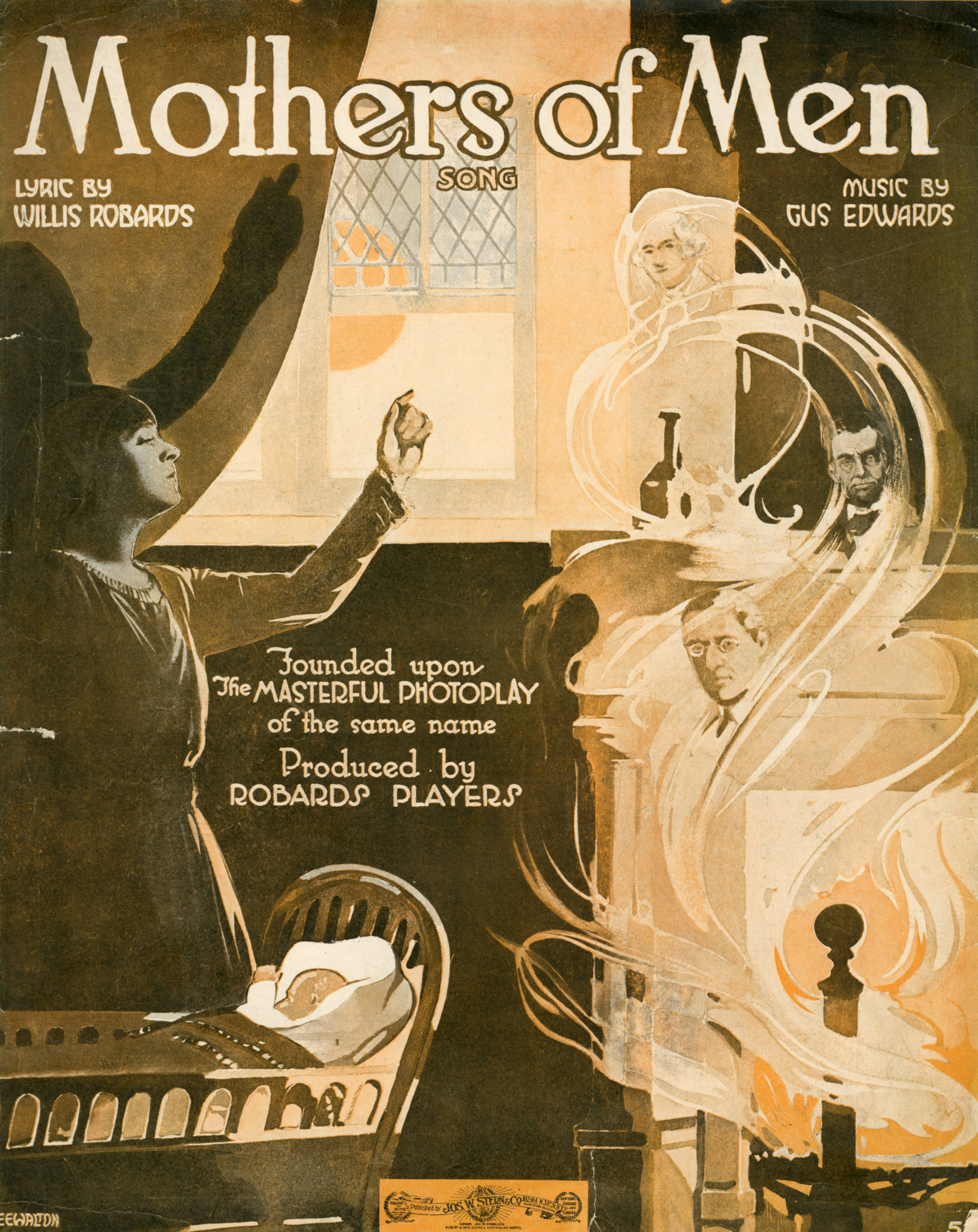 Sheet music cover: "Mothers Of Men : Song" 1 vocal score (3 p.) ; 35 cm. Illustrated cover with drawing of a mother sitting by a child in a cradle before a fireplace, with the faces of Washington, Lincoln, and Wilson visible in the smoke / E.E. Walton. MOTHERS OF MEN (Motion picture : 1917)